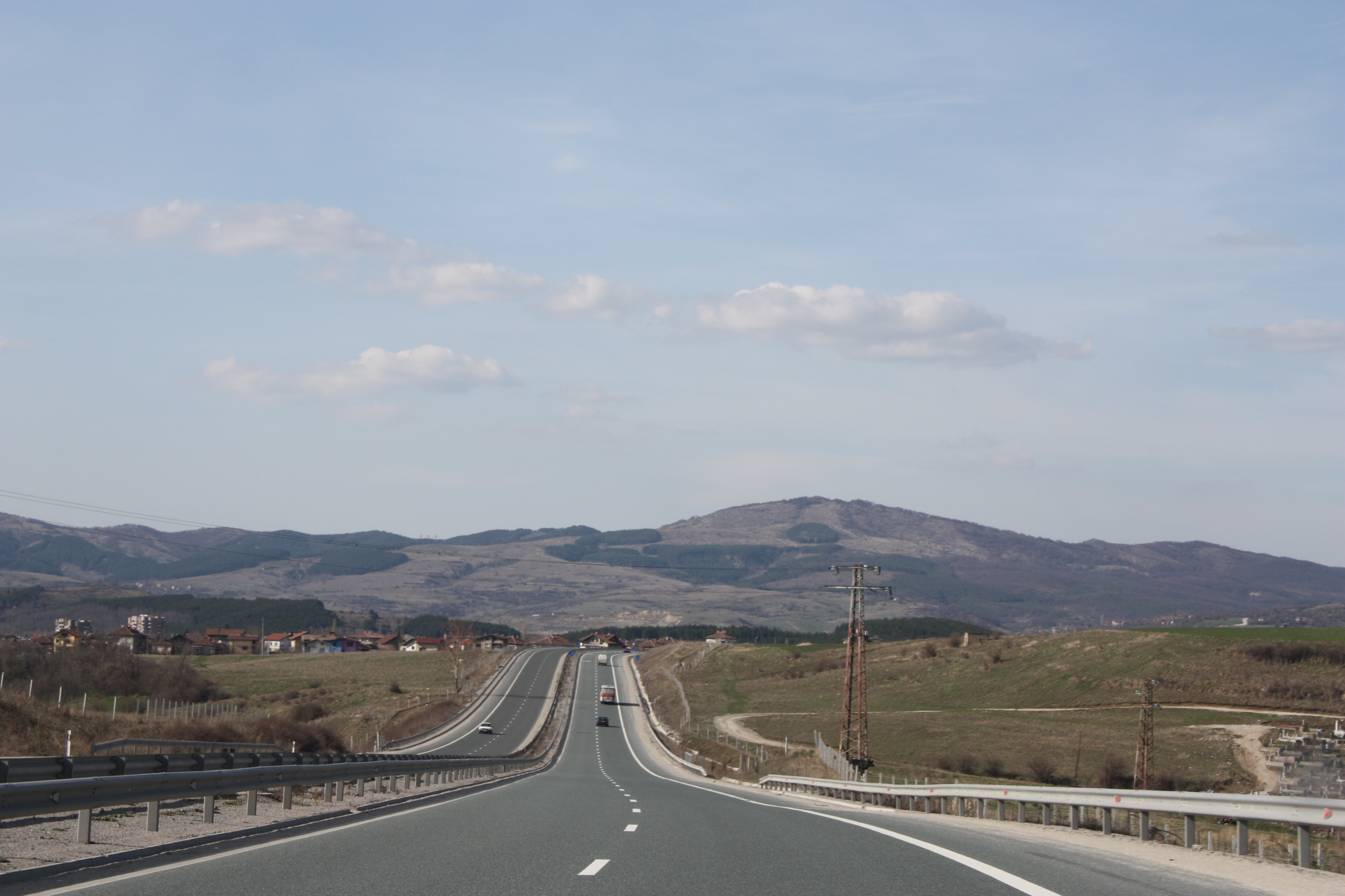 Struma highway, heading north close to Sofia, Bulgaria